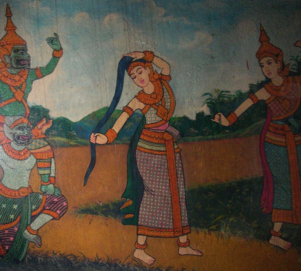 Phra Mae Thorani mural, Wat Phnom, Phnom Penh, Cambodia